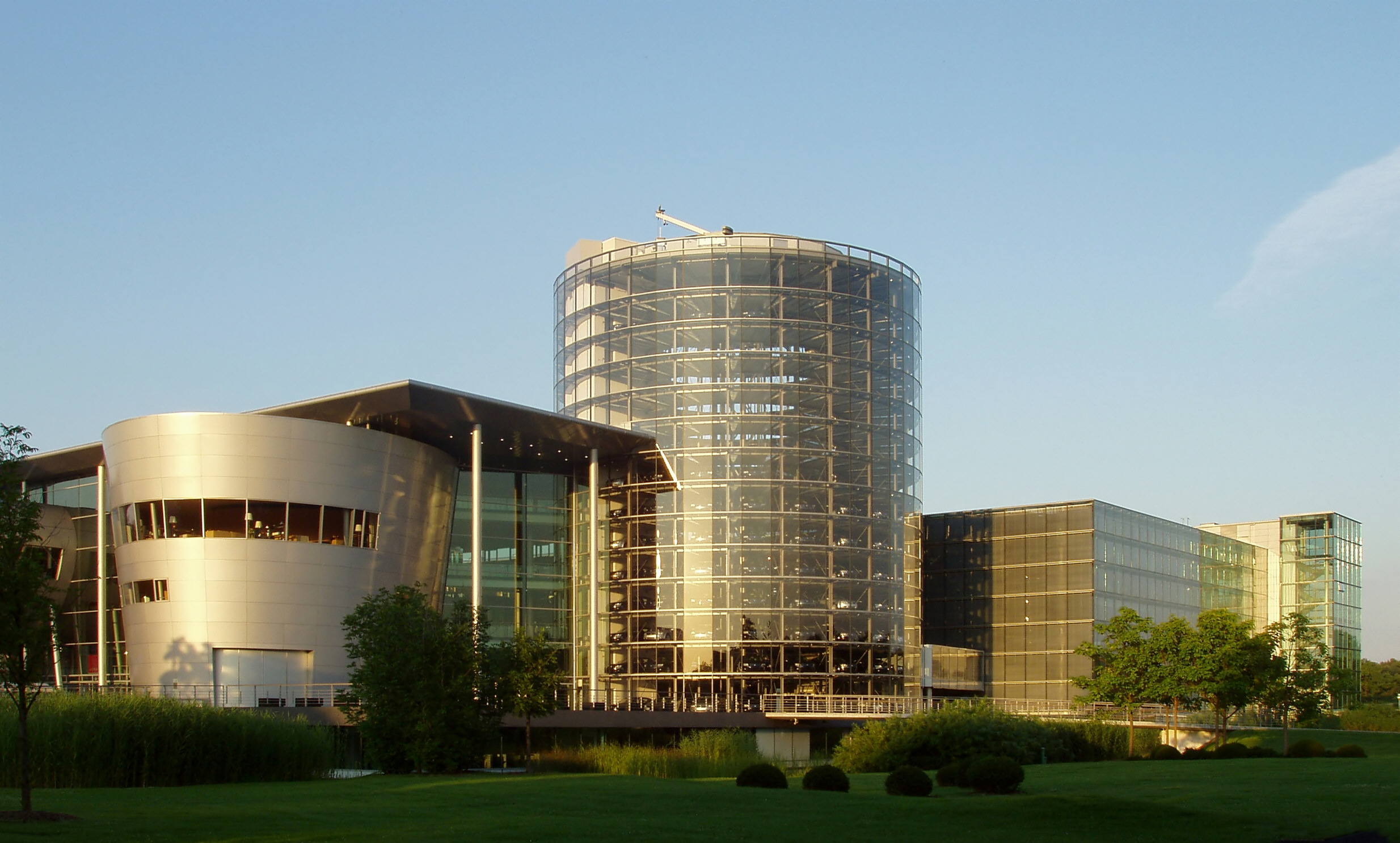 Glass manufacture an automobile production plant owned by German carmaker Volkswagen in Dresden (July 2005), created on 27.07.2005 by with Olympus C-50 Zomm